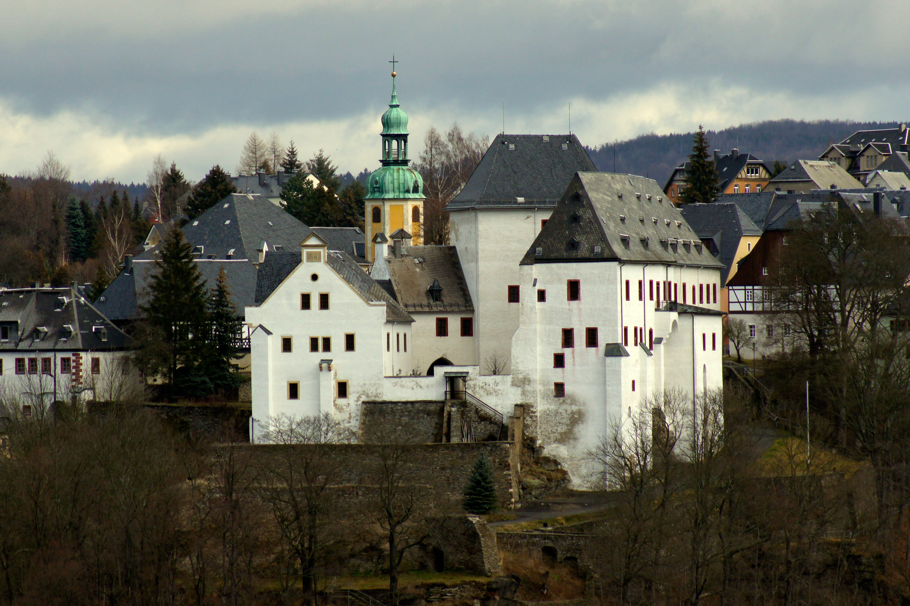 View of Castle Wolkenstein (Erzgebirge, Saxony) from the southwest